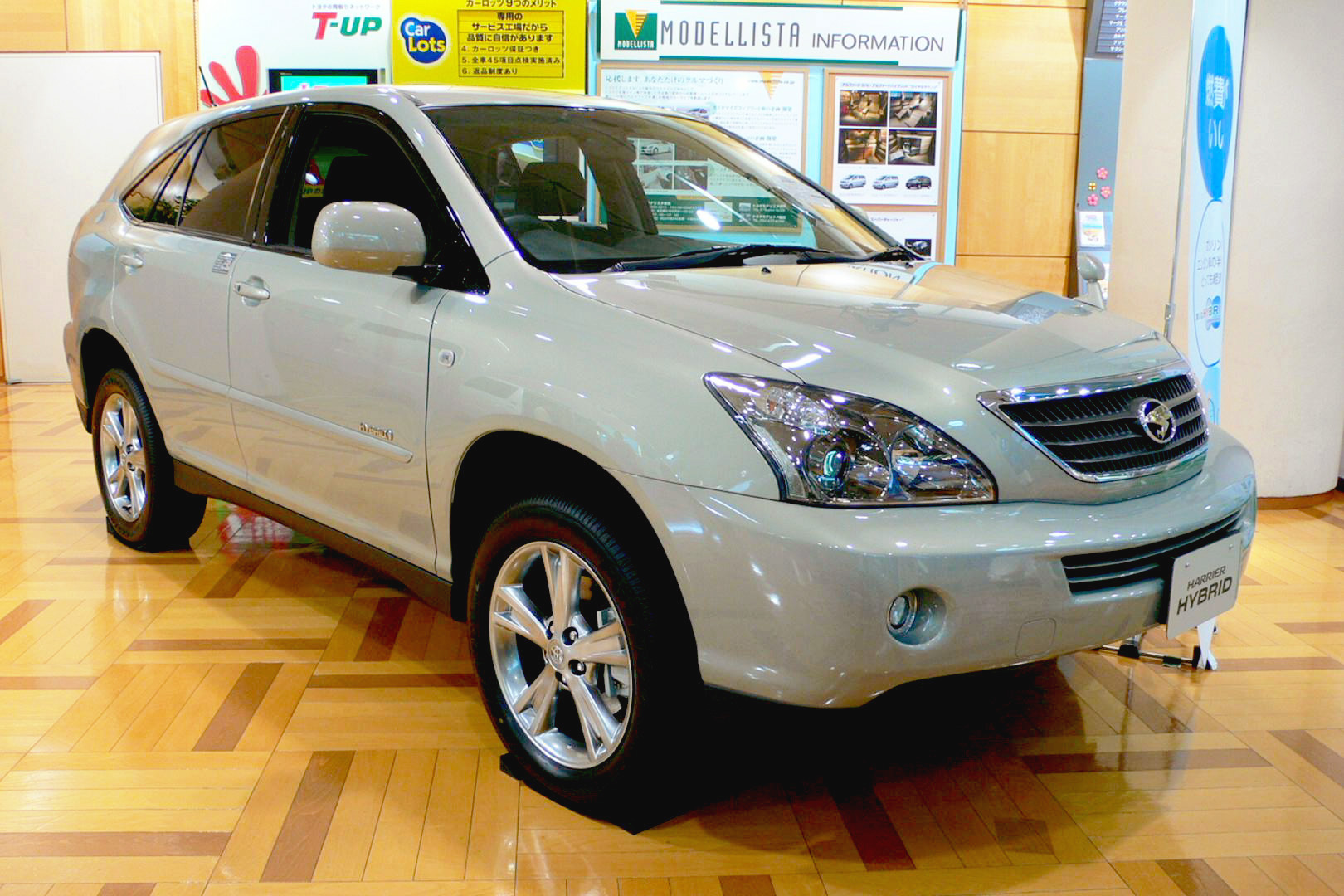 Toyota_Harrier_Hybrid(Lexus RX400h-Japanese-spec) taken in Showroom of Toyota-AMLUX